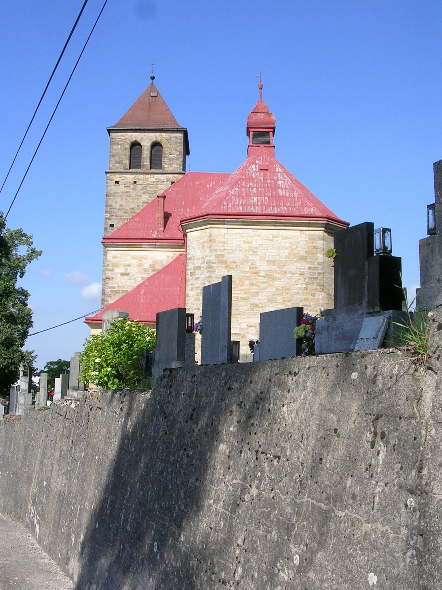 Vyskeř, Semily District, Liberec Region, the Czech Republic. The church of the Assumption.